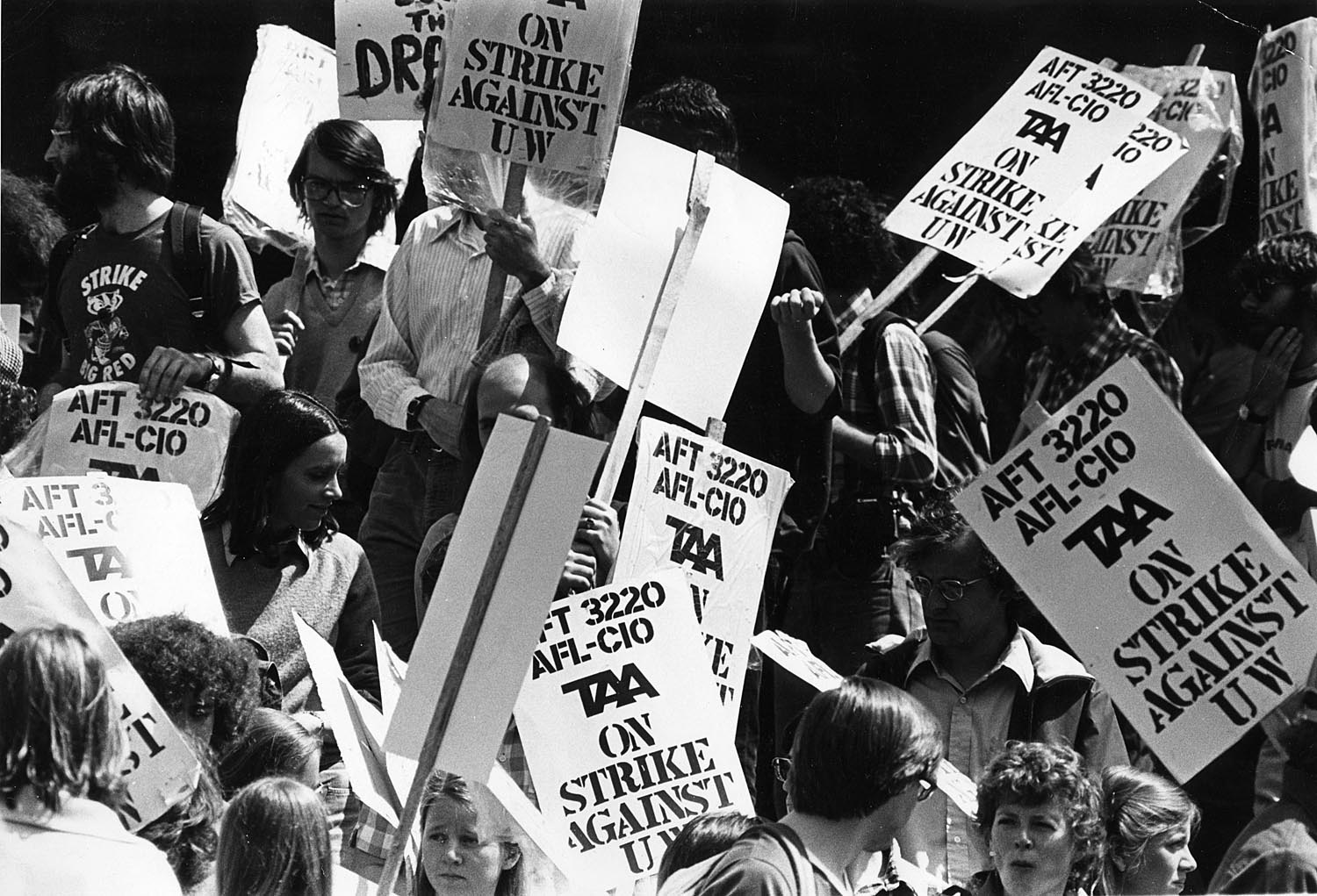 Photograph of the TAA Strike, 1970. Local Identifier: UW.uwar00195.bib